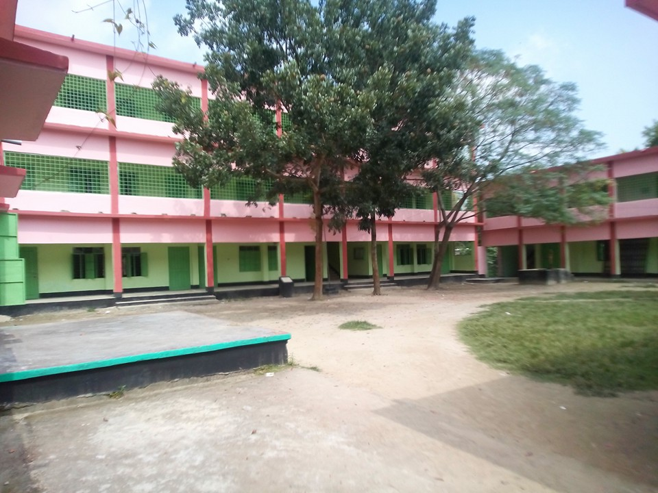 Bitghar School Main